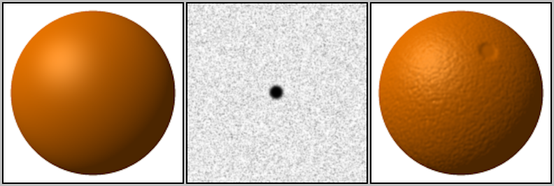 Combined bump mapping demo from: File:Bump-map-demo-smooth.png, File:Orange-bumpmap.png and File:Bump-map-demo-bumpy.png